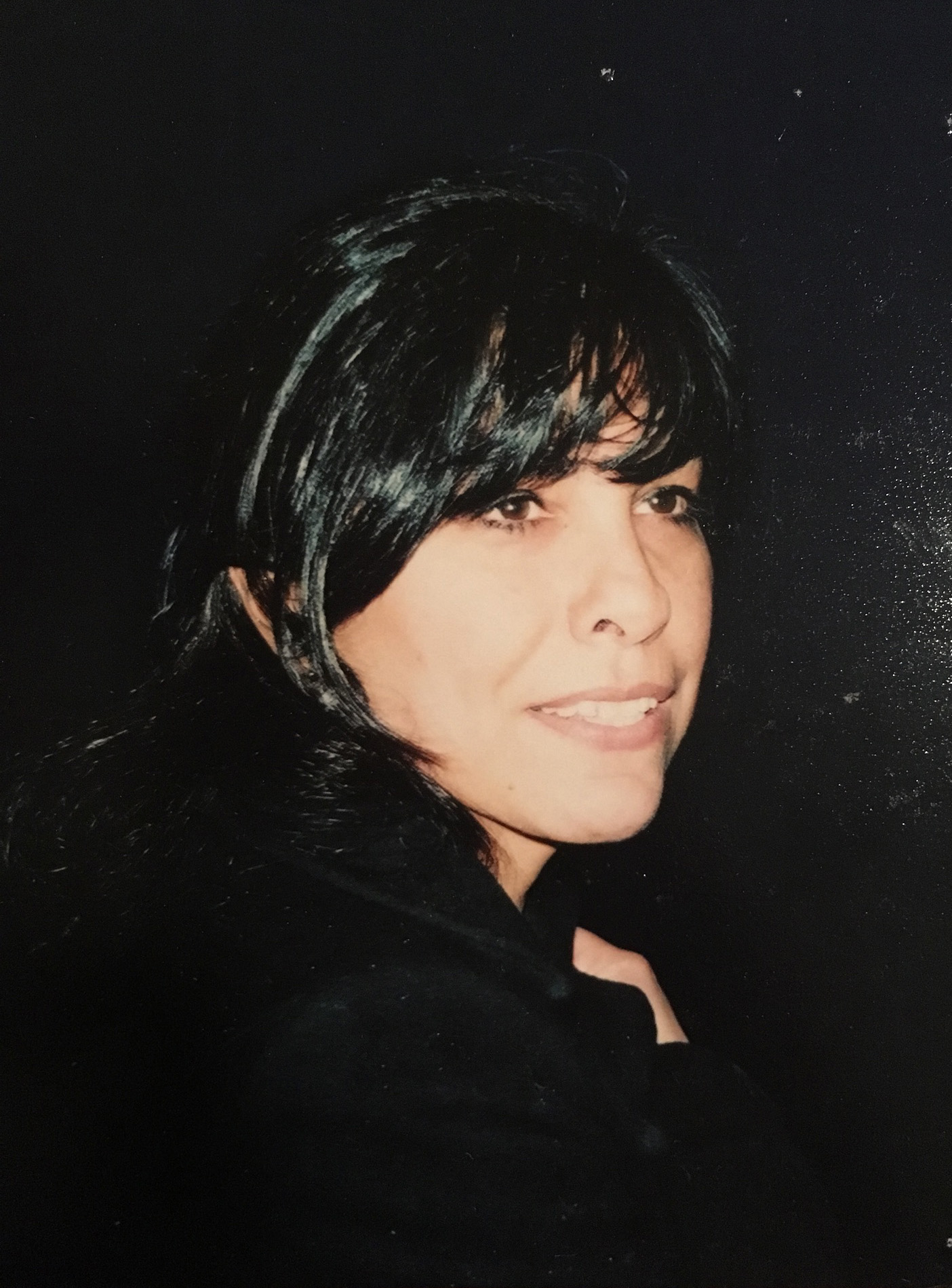 Photo of Duke Professor Negar Mottahedeh